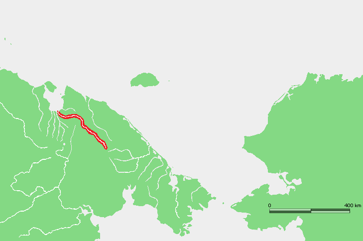 location map